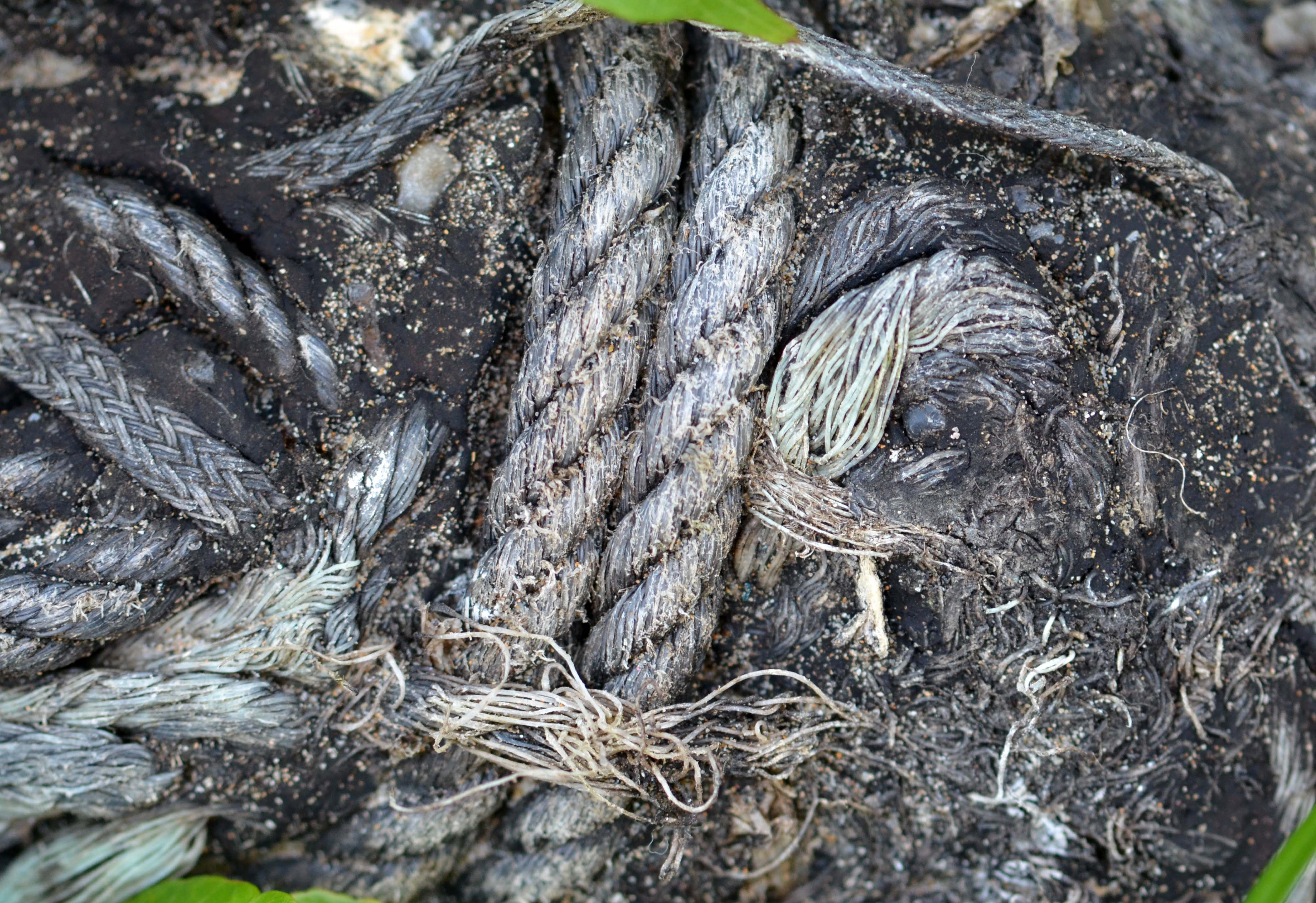 Rope and pieces of fishing nets stuck in oil (petroleum). photographed (2011-07-27) in a small "estuary" stream overlooking the beach named "Plage de la Palue", near "Cap de la chèvre" on the Crozon Peninsula (Brittany, France)